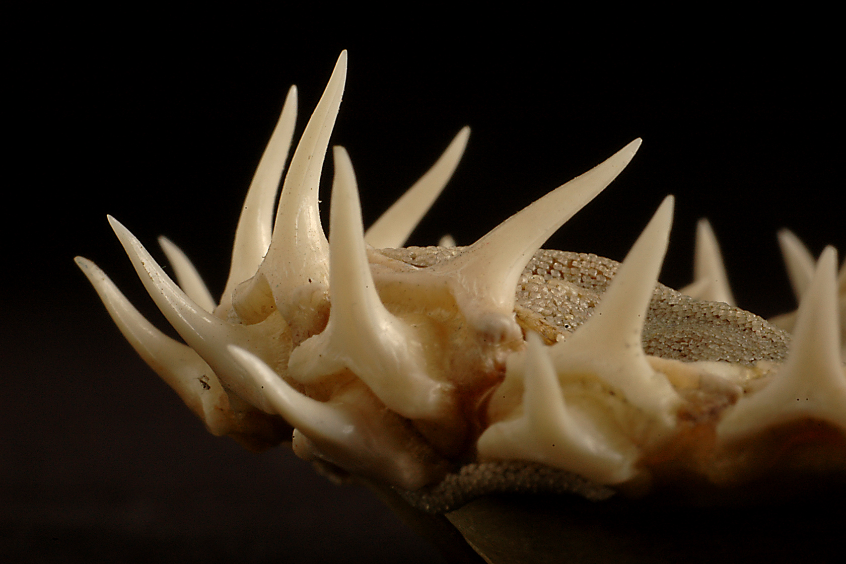 Isurus oxyrhinchus Mako shark's teeth; Dpt. Zoology, NUI Galway